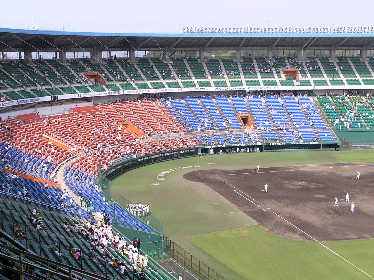 from the 2nd floor in muscat stadium